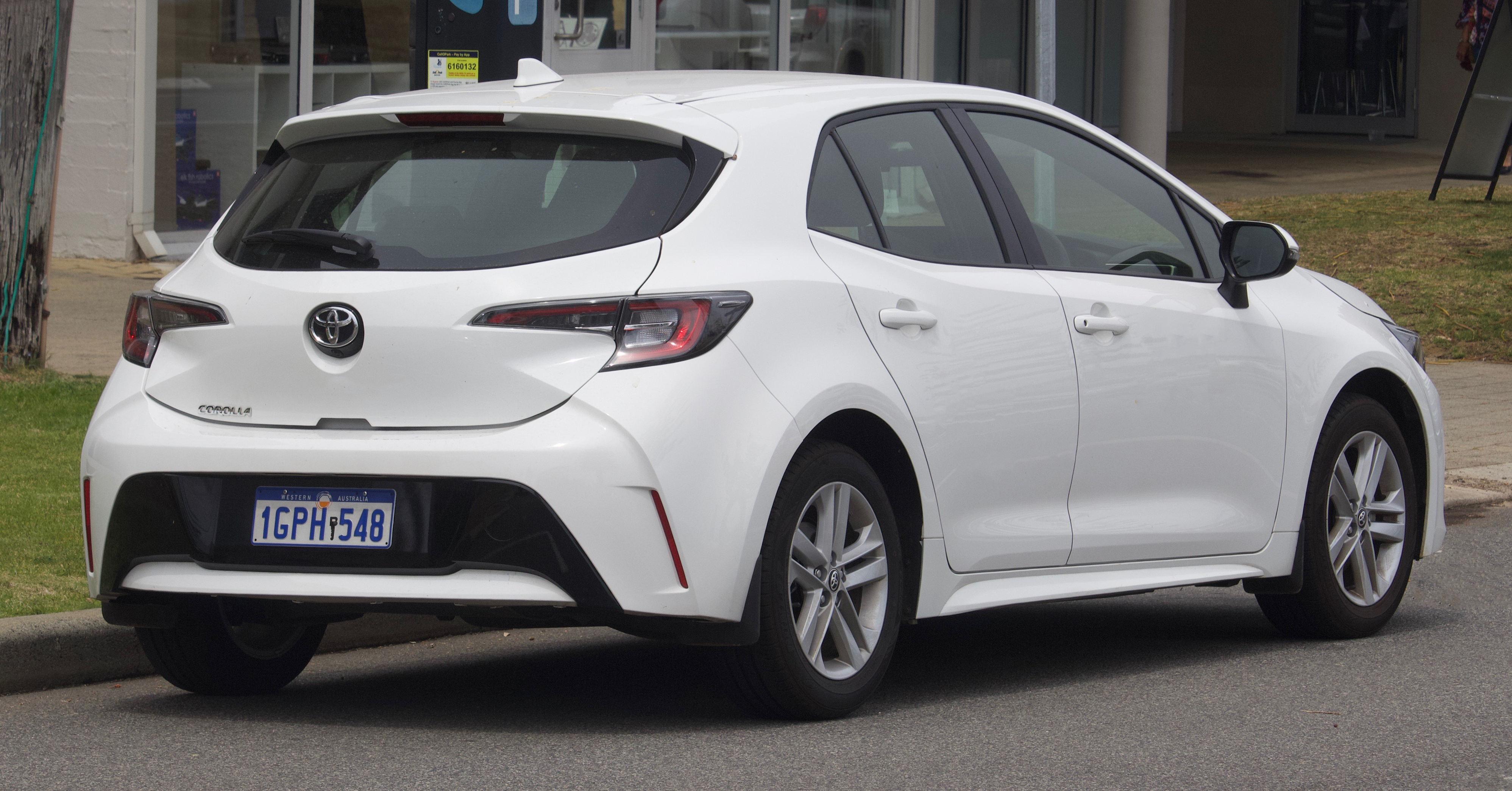 2018 Toyota Corolla (MZEA12R) Ascent Sport hatchback. Photographed in Fremantle, Western Australia, Australia.